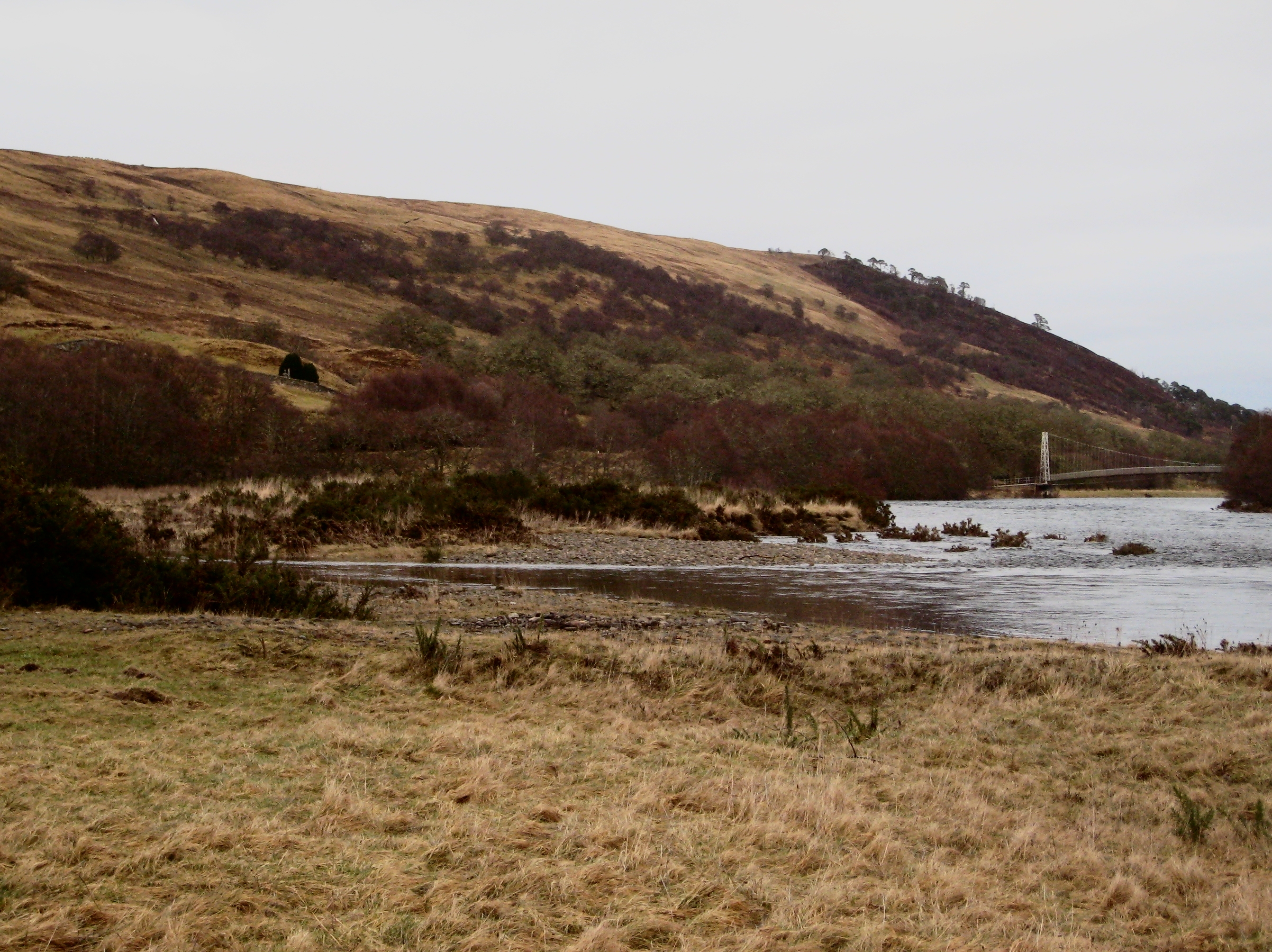 The junction of the Tutim Burn with the River Oykel, looking east (downstream) towards Tutim footbridge. Tutim cemetery can be seen on the hillside in the left-centre of the photo, marked by two dark green trees.